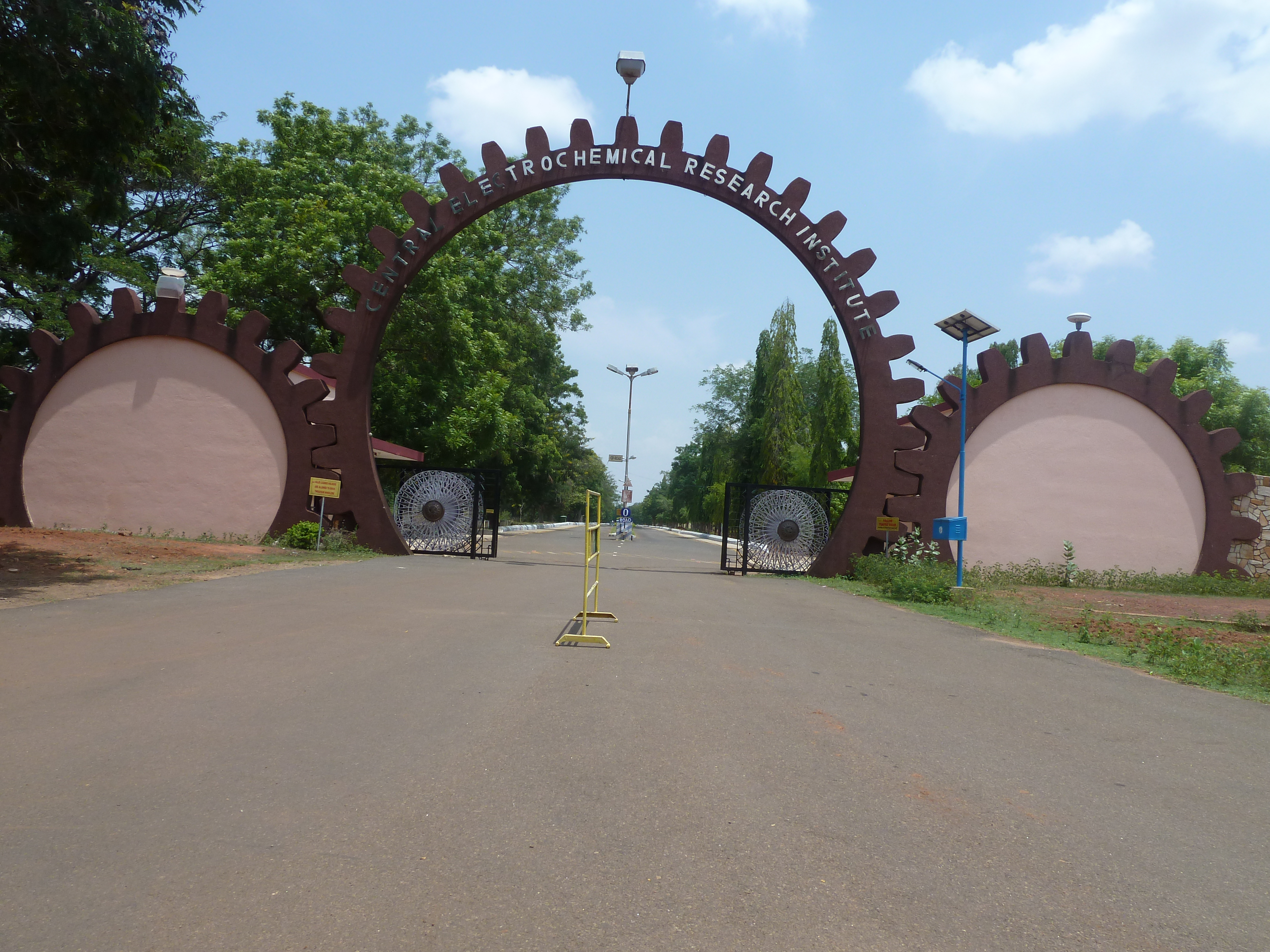 Entrance of Central Electro Chemical Research Institute in Karaikudi, Tamil Nadu.